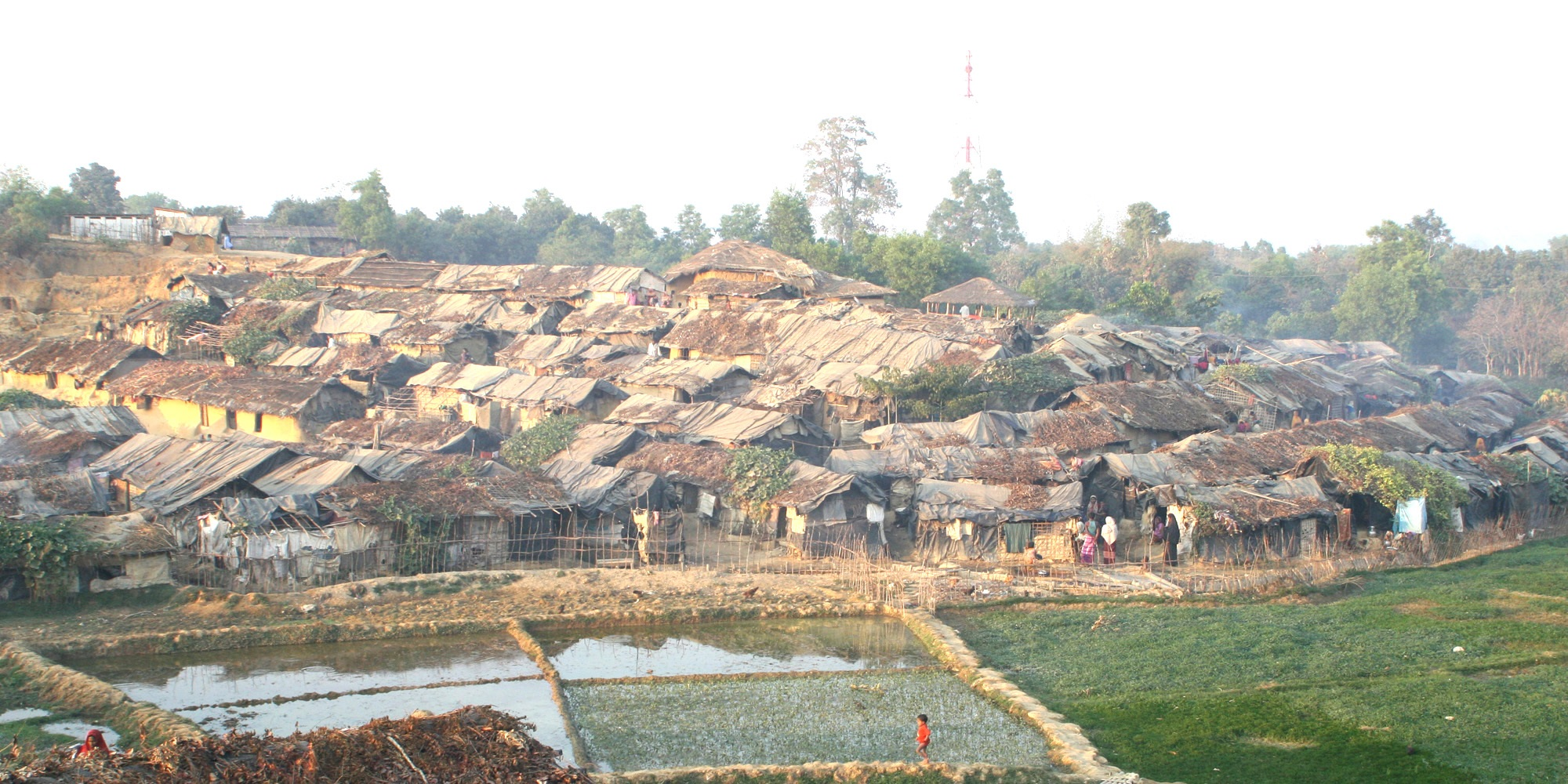 Photo of Kutapalong Refugee Camp in Bangladesh.